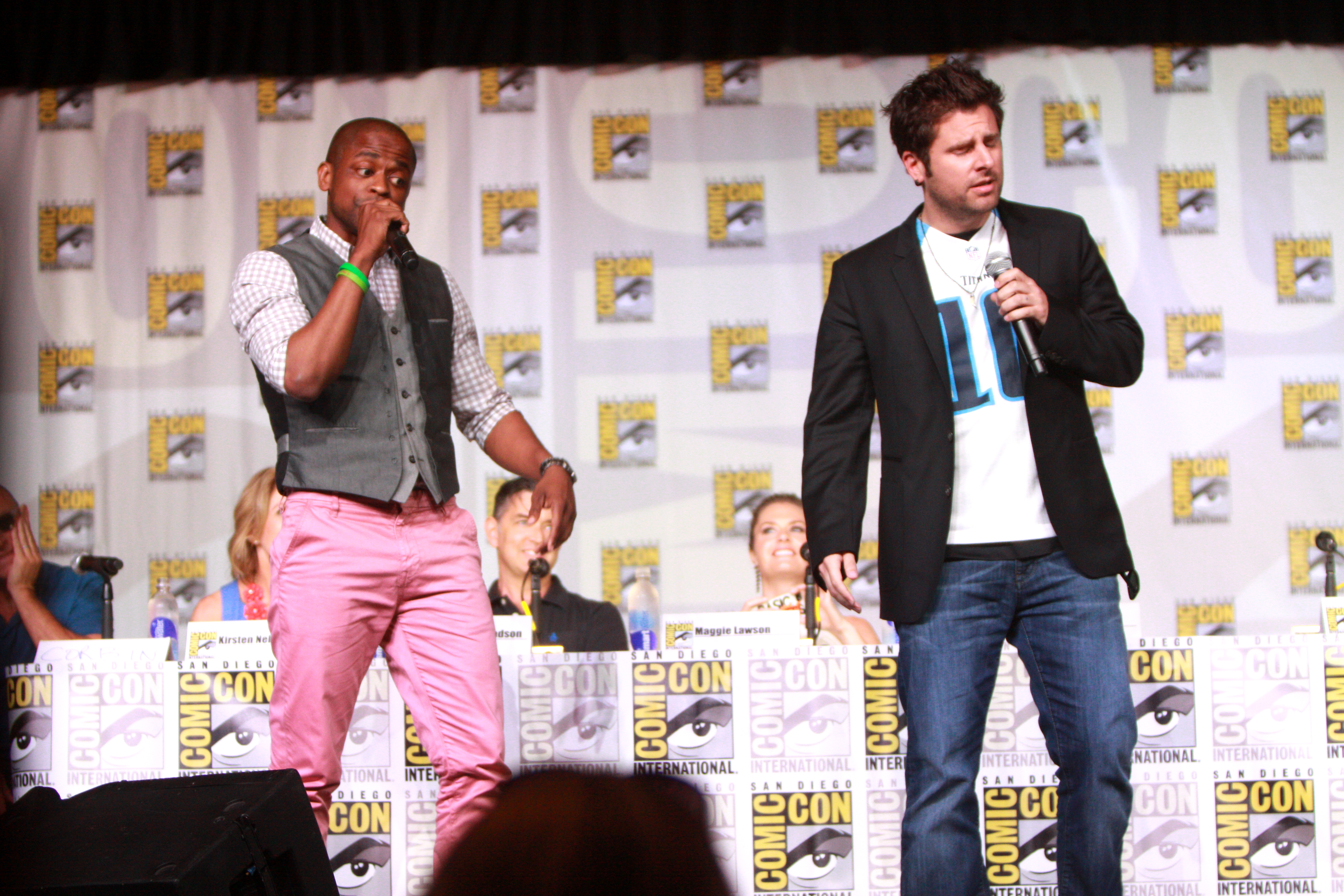 Dulé Hill and James Roday performing a song at the 2013 San Diego Comic Con International, for "Psych", at the San Diego Convention Center in San Diego, California.